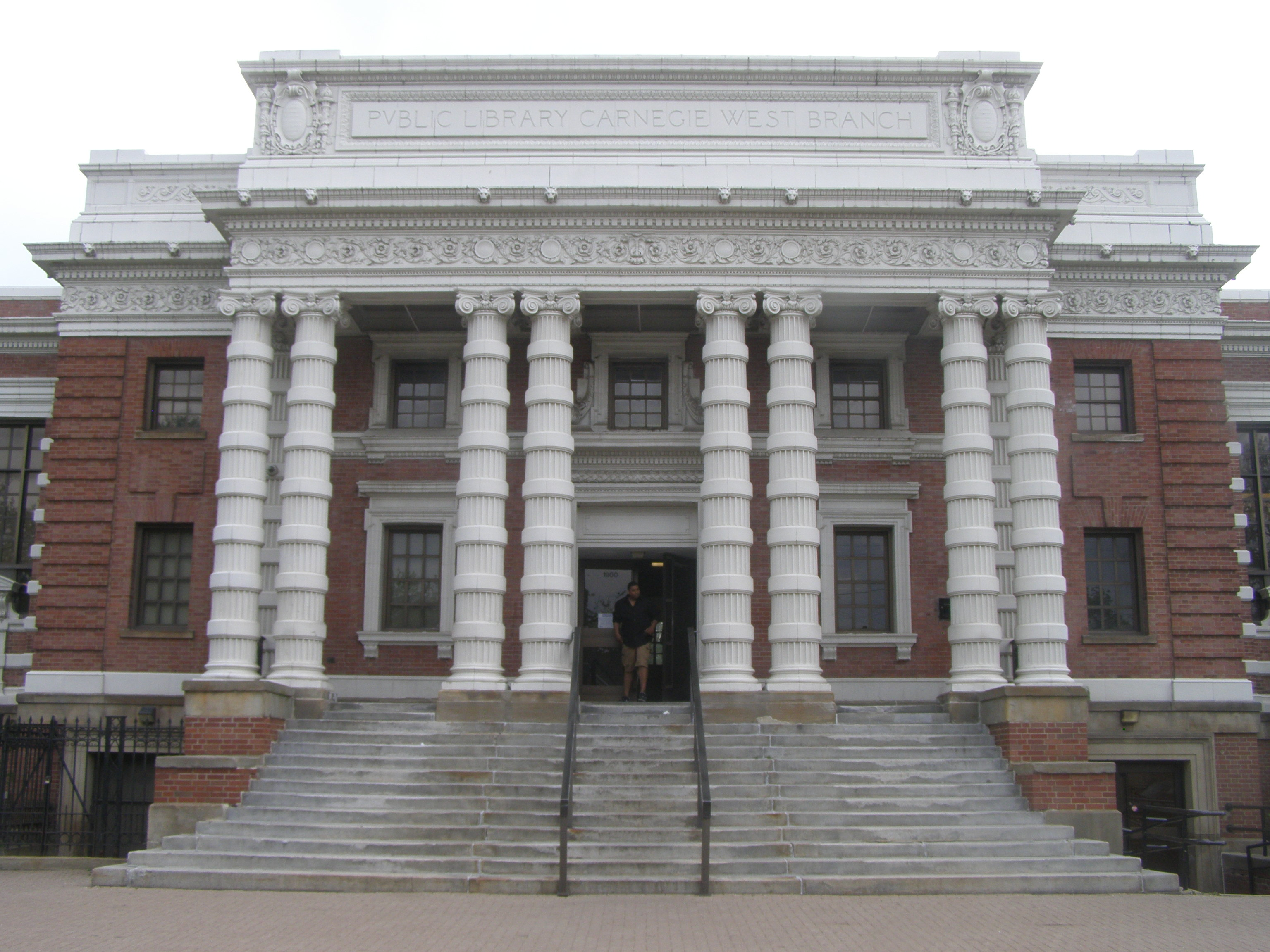 Carnegie West, Cleveland Public Library, 1900 Fulton Road Cleveland, OH 44113